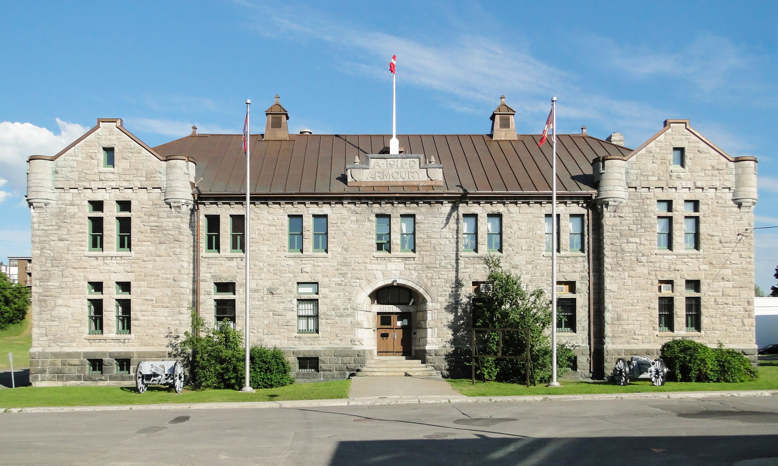 Armoury of Lévis, province of Quebec, Canada